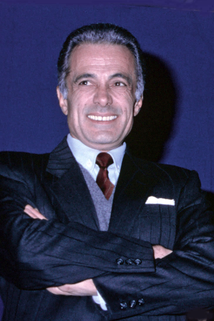 photo made by the author